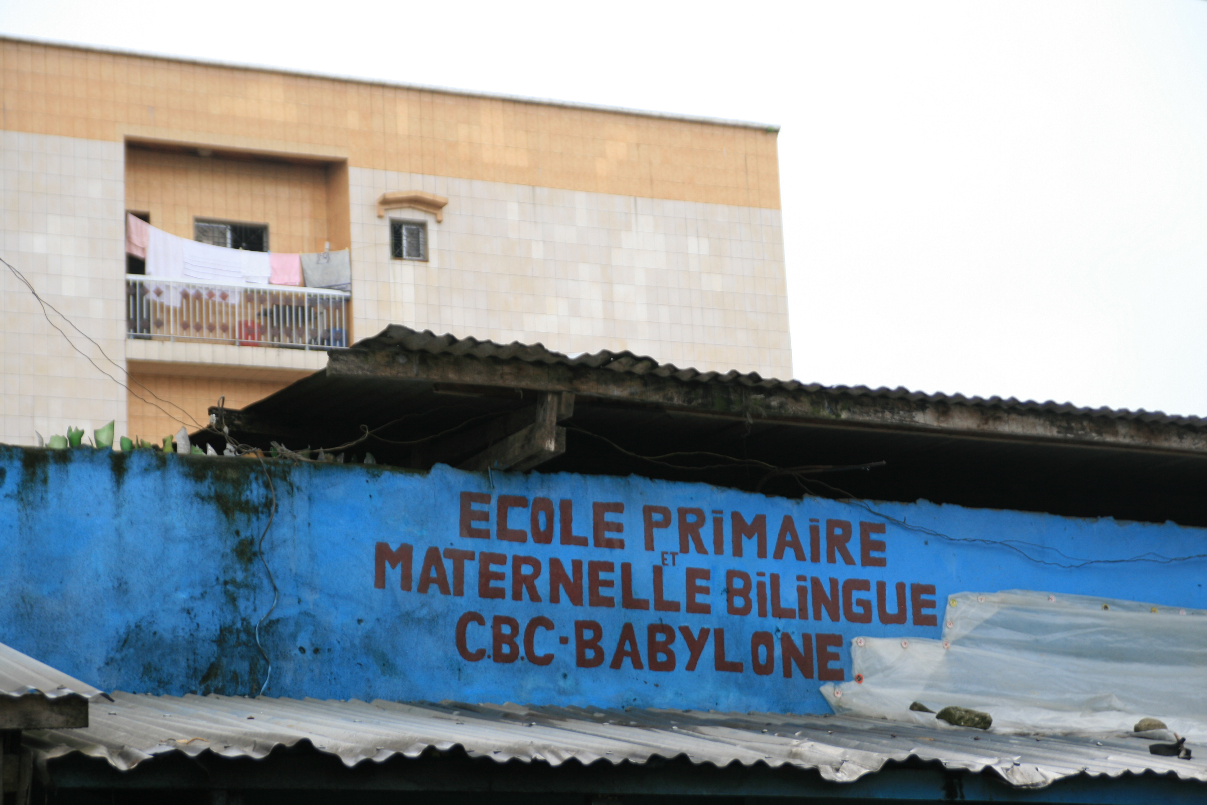 The Ecole Babylone in New Bell. Artwork Oasis by Tracey Rose commissioned and produced by doual'art for the SUD Salon Urbain de Douala 2010. Photo by Sandrine Dole, July 2012.